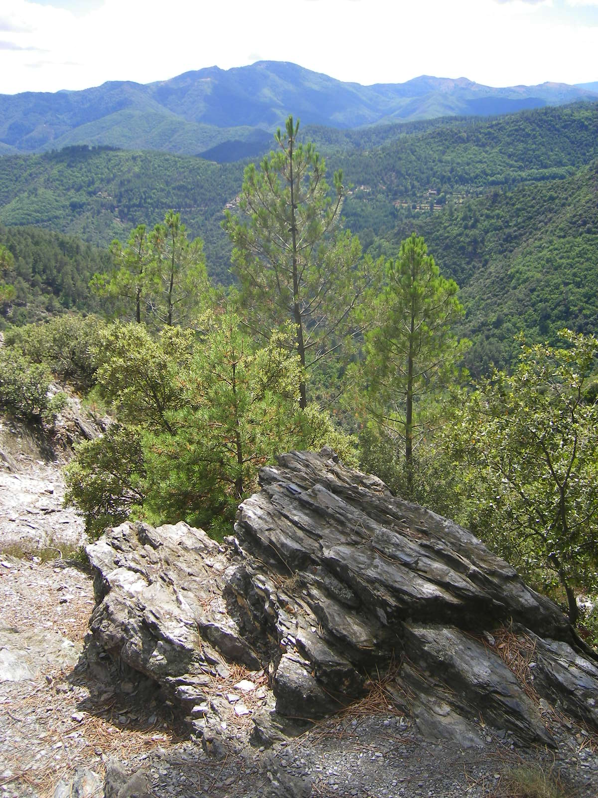 Col Saint-Pierre, view toward south